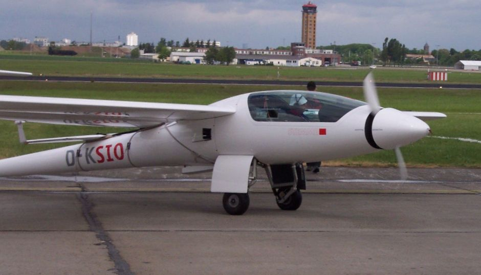 Stemme S10-VT at the ILA 2006 exhibition